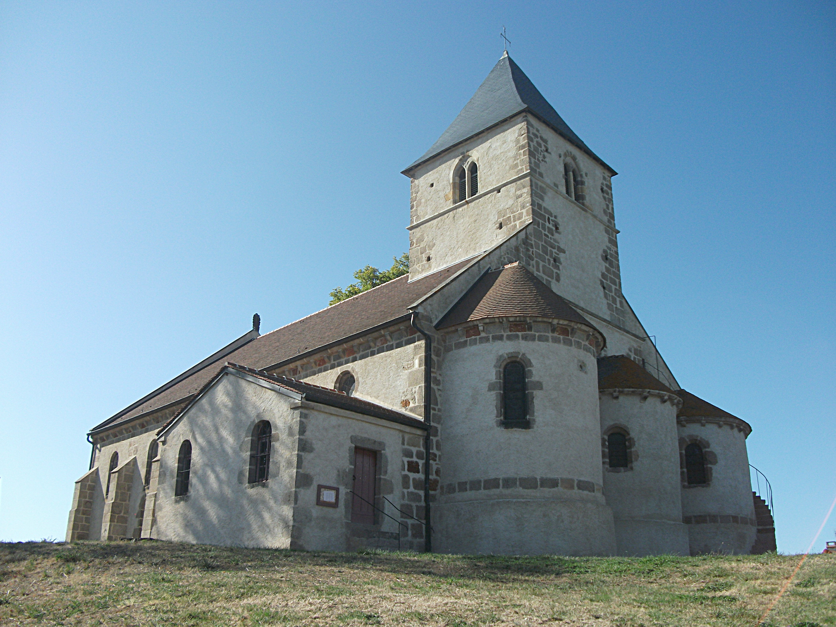 Church Notre-Dame (12th century), in Lapeyrouse, Puy-de-Dôme, Auvergne-Rhône-Alpes, France. [19016]